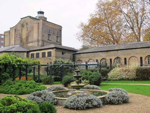 New River Head garden, engine house and coal stores. In the early 18th C, the New River Company decided to pump water up from the Round Pond to the Upper Pond, now the reservoir in Claremont Square. The pump was originally powered by a windmill and an integral horse gin (for use when there was no wind). But the windmill was not a success, and the horse gin had been built slightly too small to enable efficient working. So a new horse gin building was erected around 1720. It was some 50 years later in 1766-8 that a steam engine house was built. It was extended in 1786 when a Boulton-Watt steam engine was installed. Steam power was replaced by electricity in 1950. The engine house and associated buildings survive relatively unaltered (other than that the engine house has lost its chimney); the buildings were listed in 1972 and have been little used since.